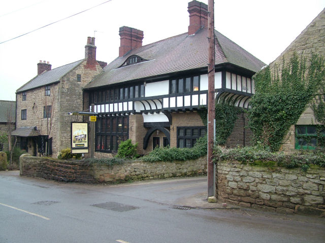 Hooten Pagnell Village Club. A very old half wood half stone pub / club.